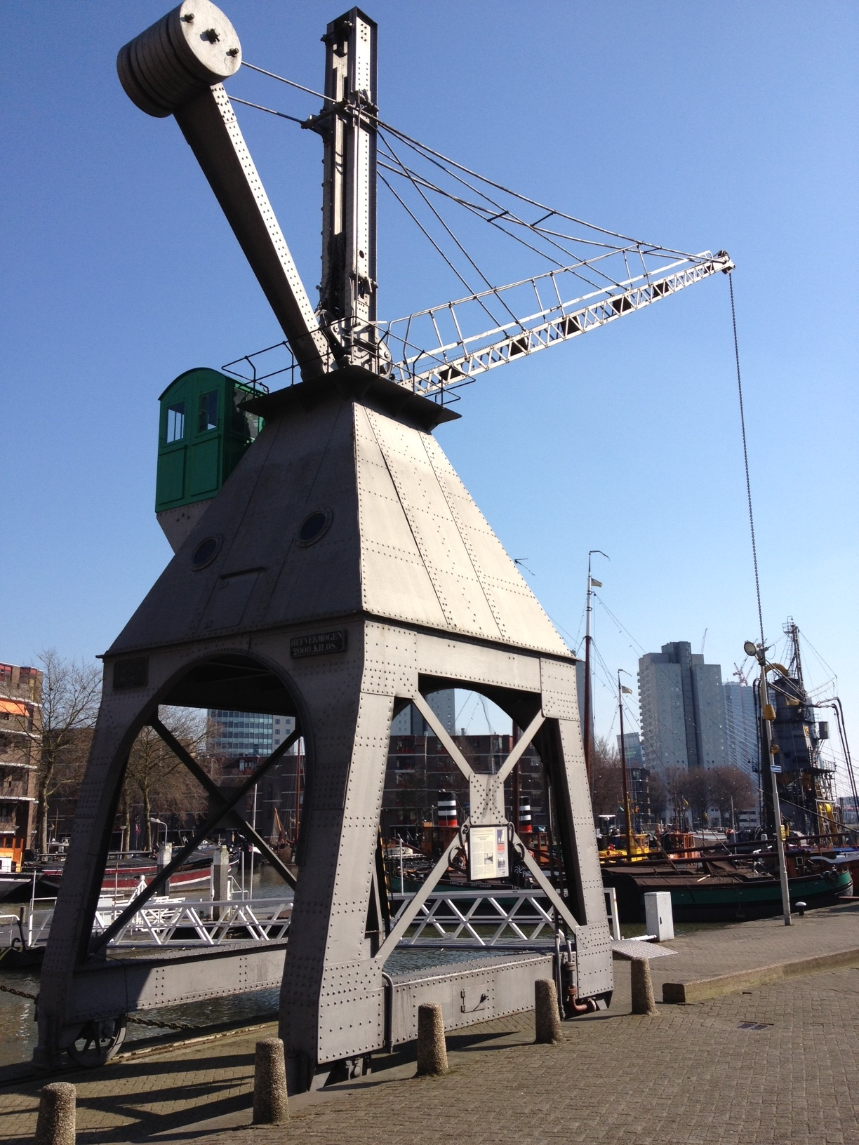 Crane working on water pressure. Developed by W.G. Armstrong in Newcastle upon Tyne. Introduced around 1850 and port of Antwerp used these cranes till 1975.